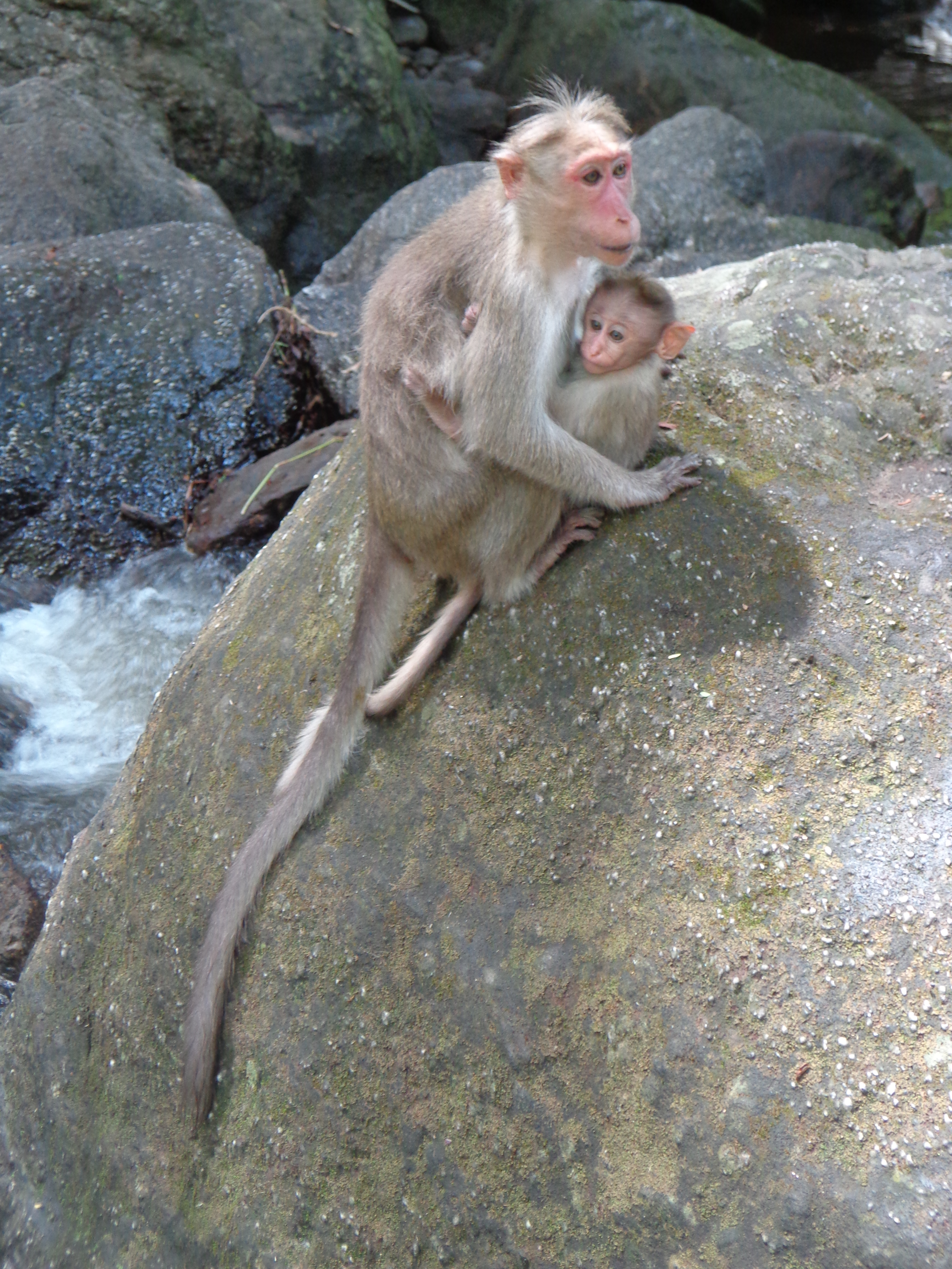 A mother monkey roaming in search of food along with its cute baby